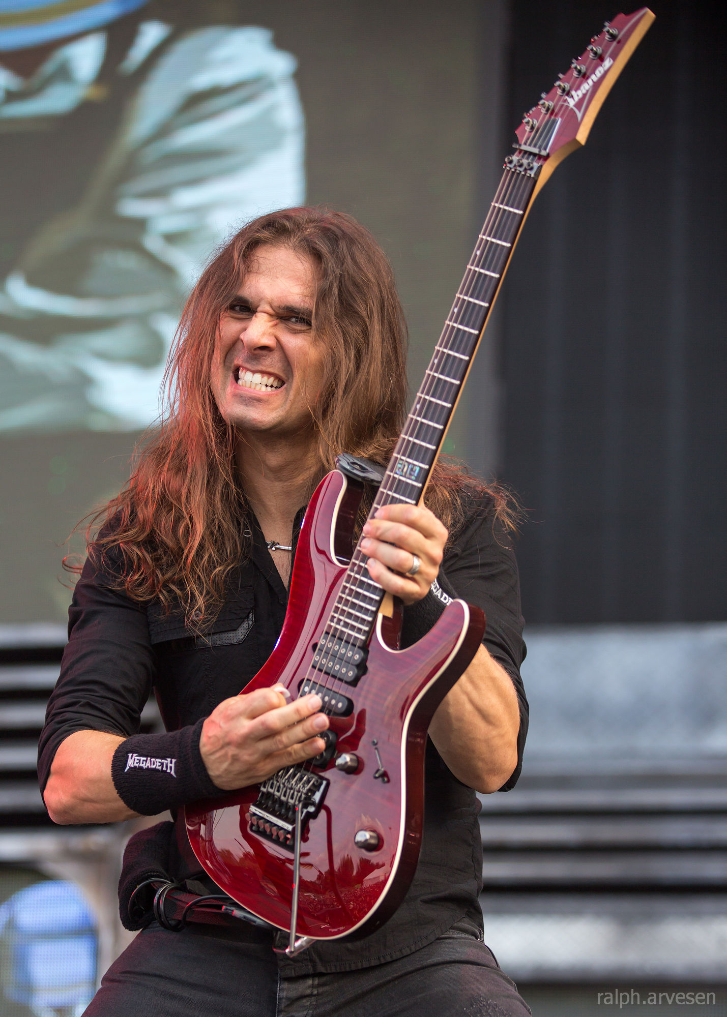 Megadeth performing during the River City Rockfest at the AT&T Center in San Antonio, Texas on May 29, 2016. Megadeth performing in San Antonio, Texas in May 2016